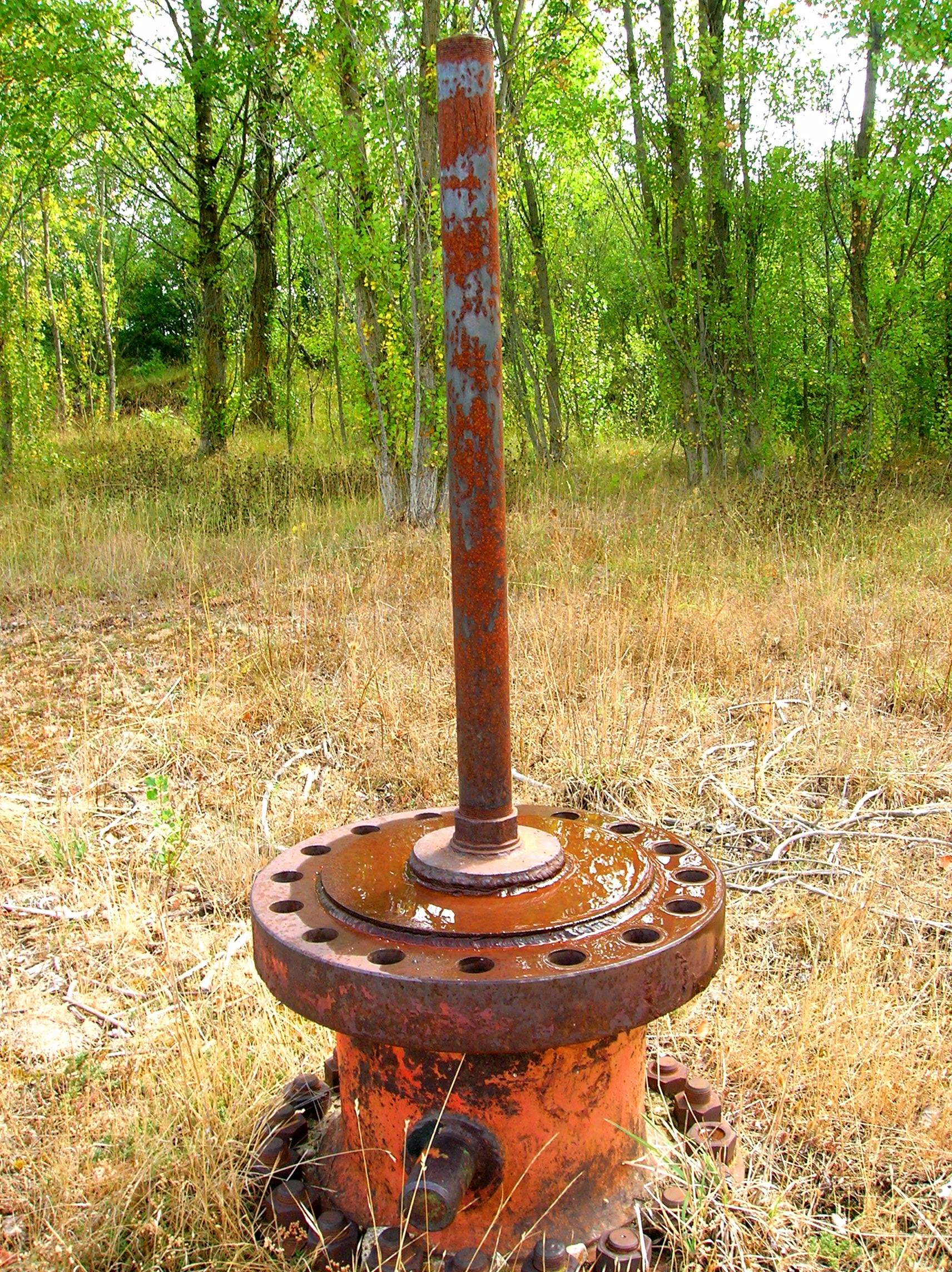 Boca cegada del pozo de petróleo "Tozo 1", en Prádanos del Tozo (Burgos, España). Agosto 2005